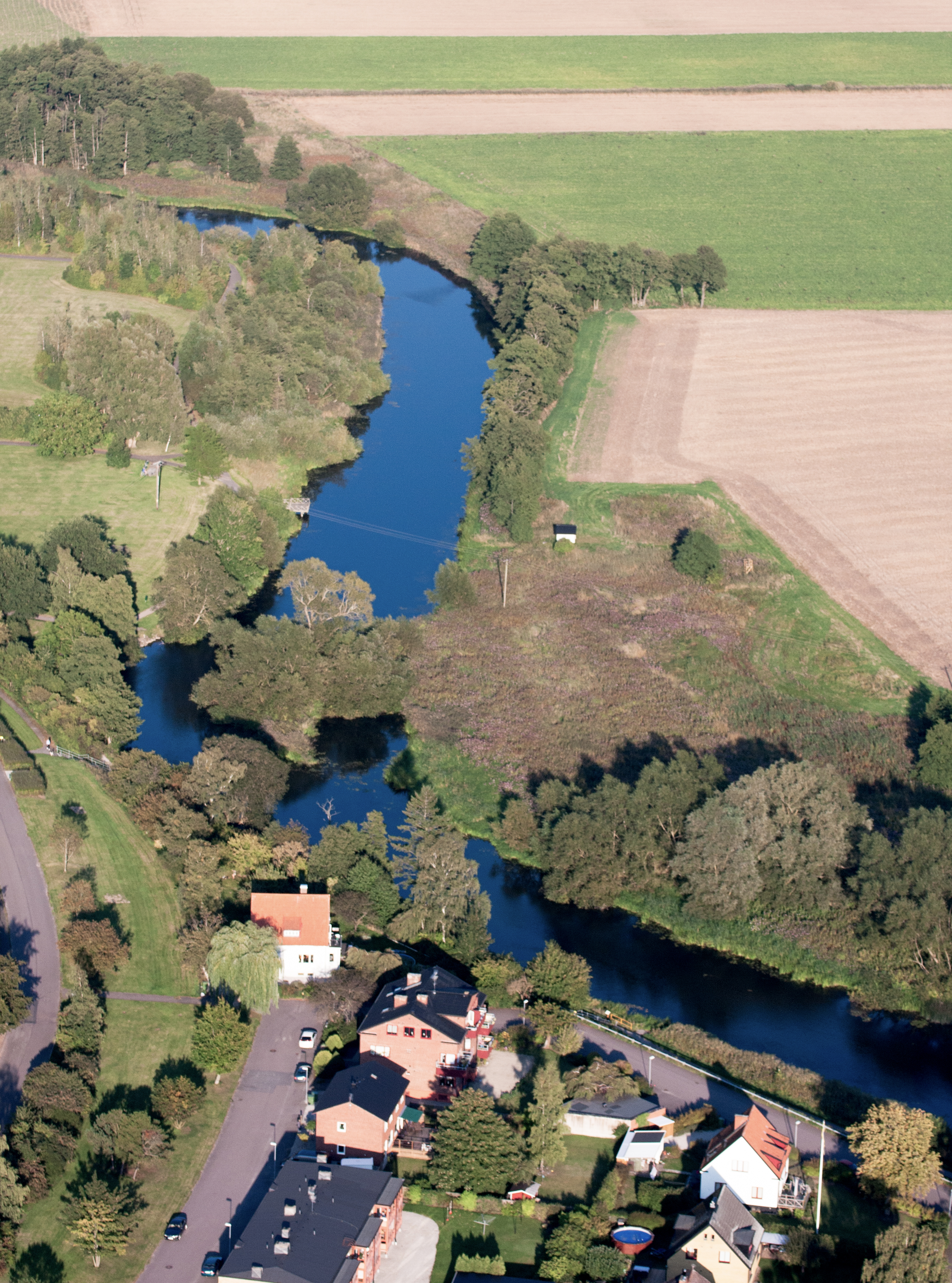 Kävlingeån, Sweden.